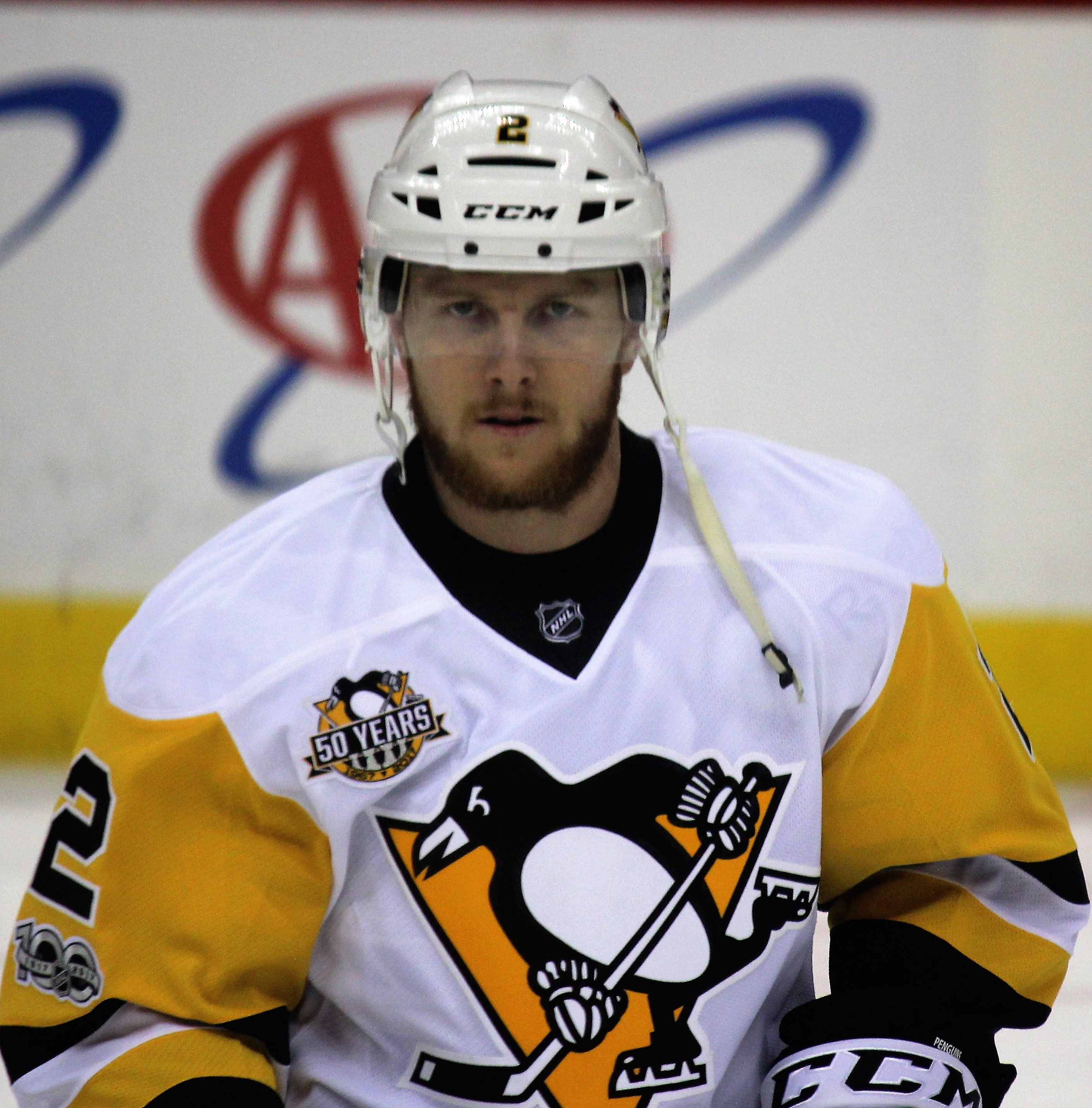 Pittsburgh Penguins defenseman Chad Ruhwedel skates during warm-up prior to a game against the Washington Capitals, May 6, 2017, at Verizon Center in Washington, D.C.